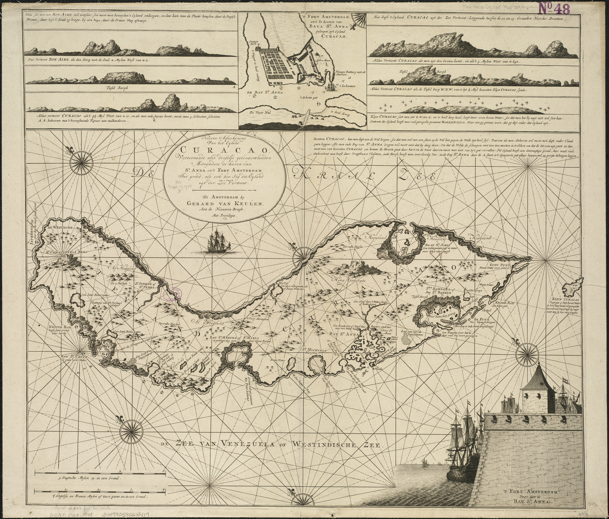 Zoom into this map at . Author: Keulen, Gerard van Publisher: Keulen, Gerard van Date: 1728 Location: Curaçao (Netherlands Antilles) Dimension 55x64cm Scale: [ca. 1:160,000] Call Number: G5180 1728 .K48